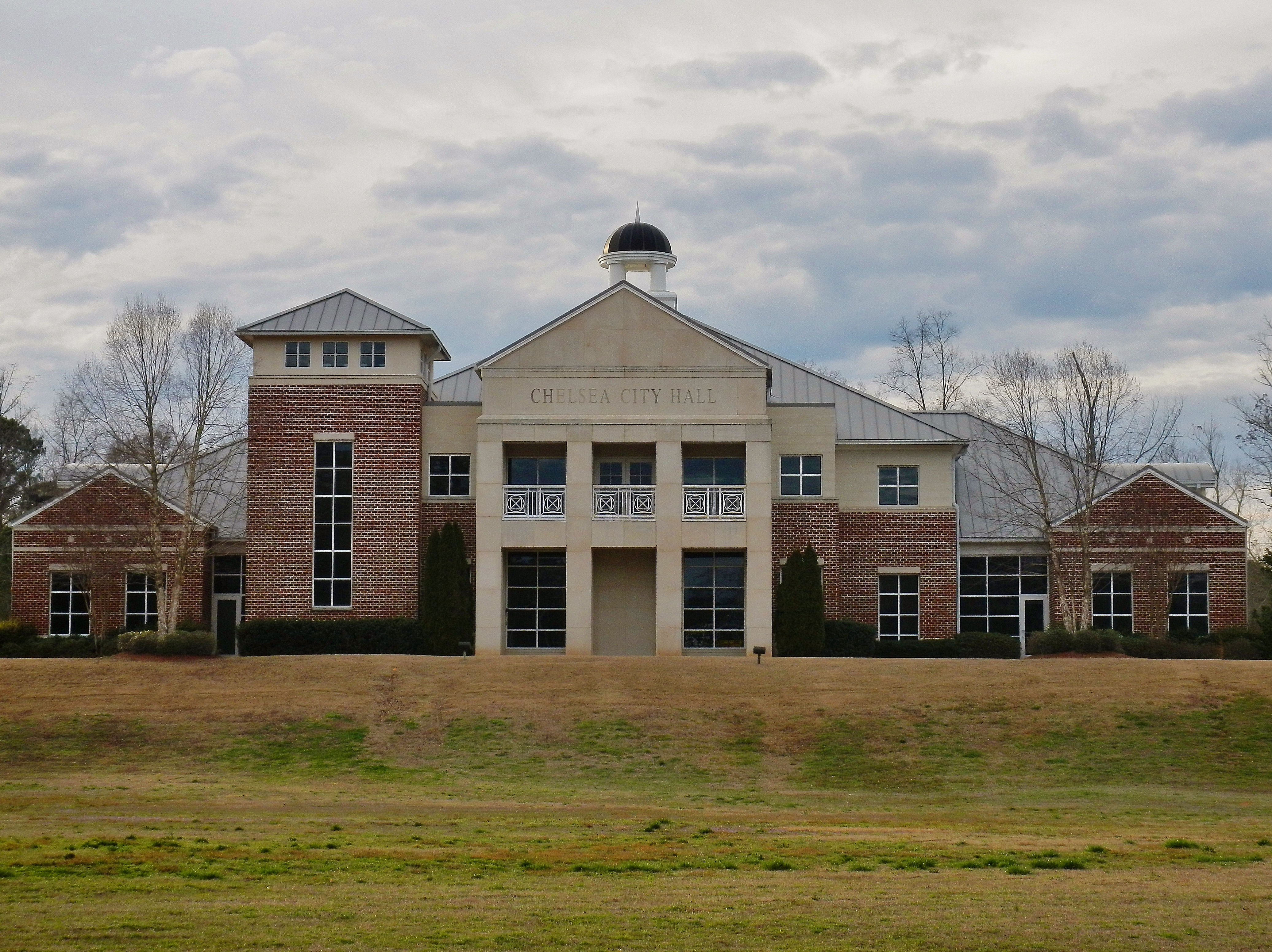 This is a photograph of the City Hall in Chelsea, Alabama.